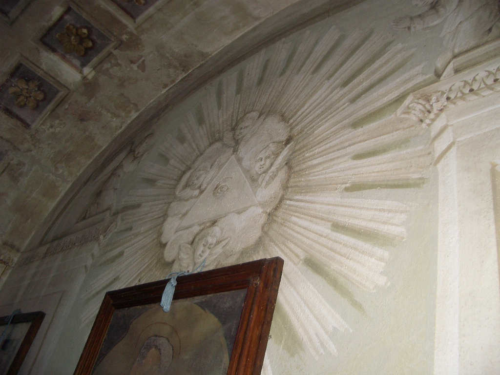 Detail of the palace's chapel in Villa Colle Allegro (Arezzo)